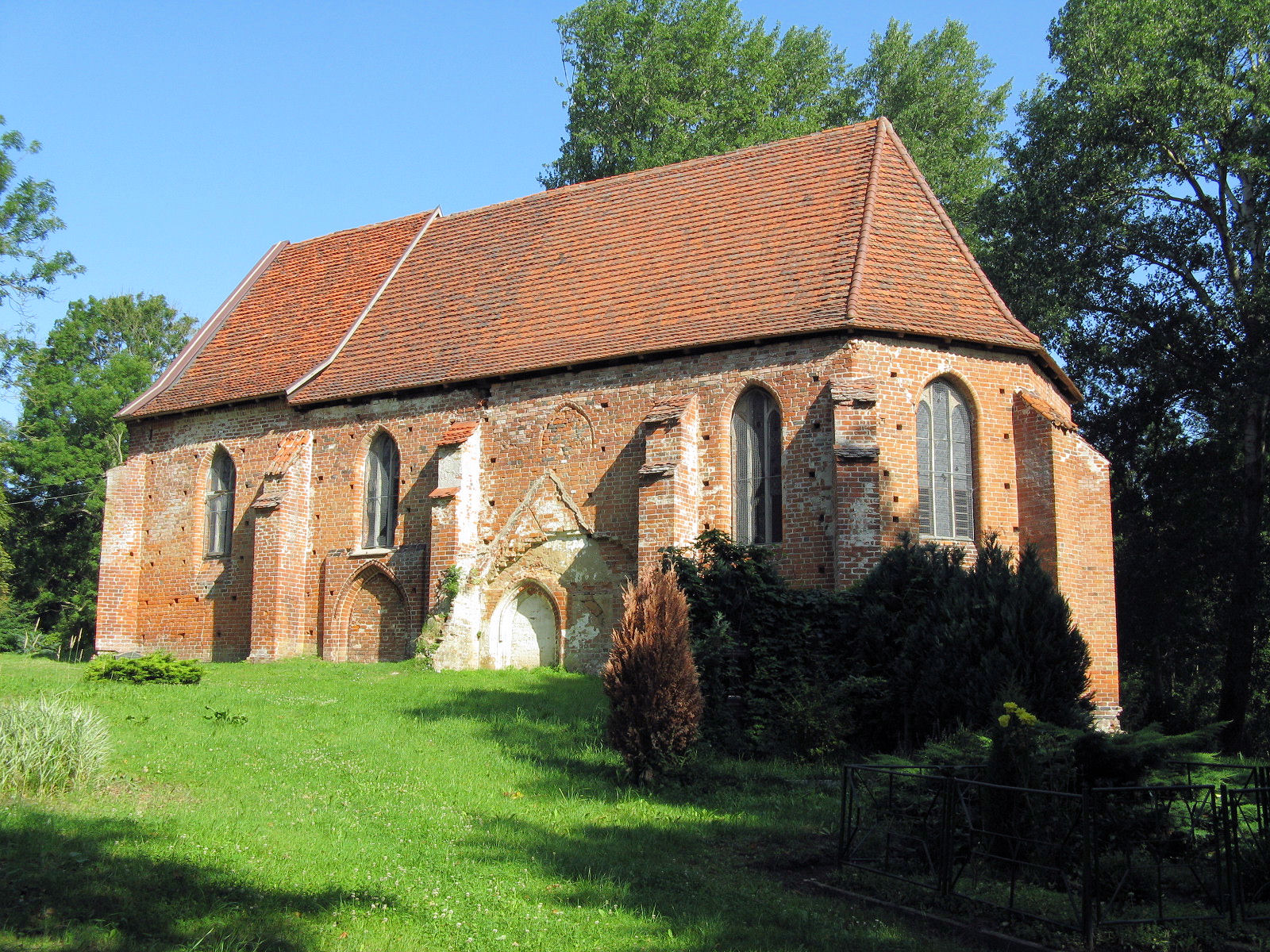 Church in Eickelberg, disctrict Parchim, Mecklenburg-Vorpommern, Germany